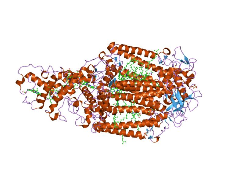 Cartoon representation of the molecular structure of protein registered with 1prc code.